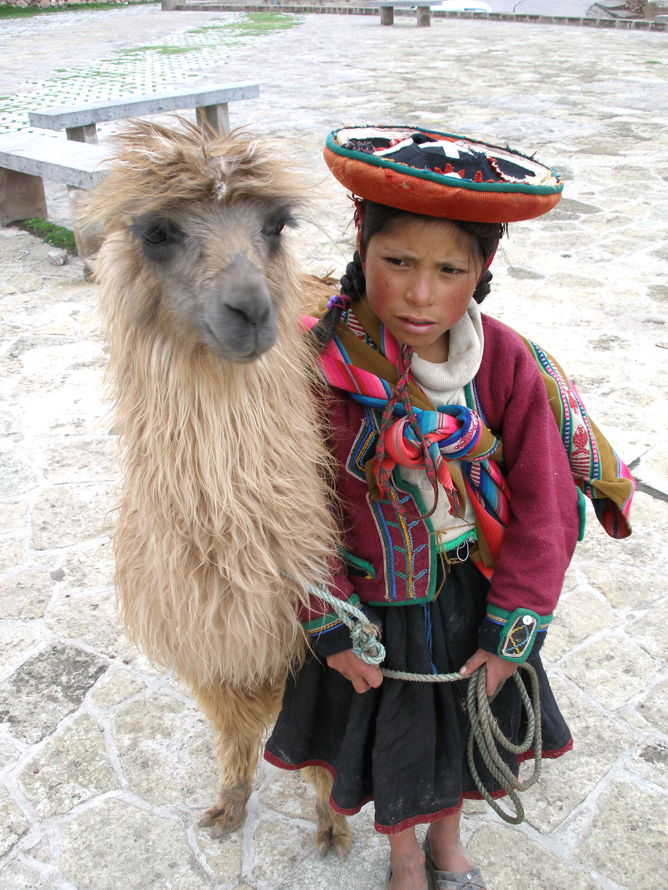 Quechua girl and her llama in Cuzco, Peru